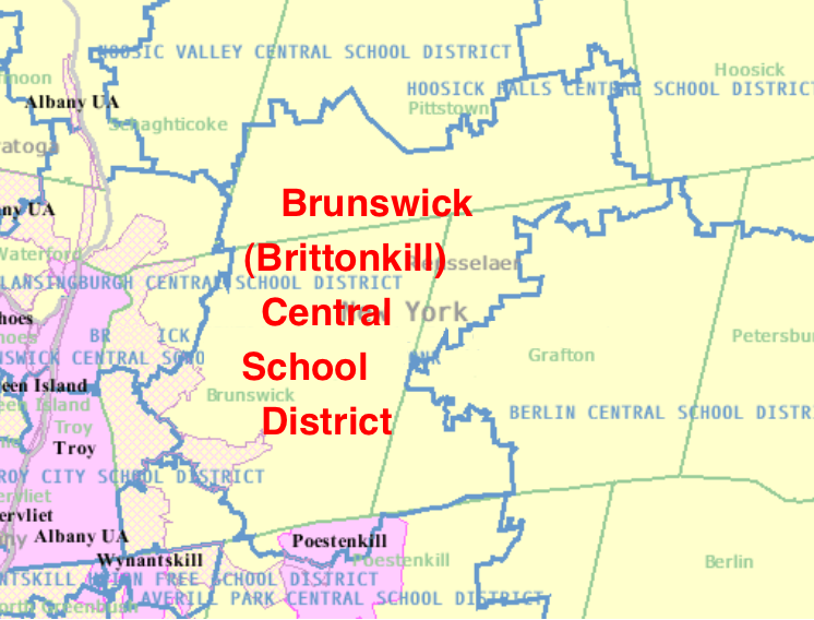 Map of Brunswick (Brittonkill) Central School District and surrounding school districts taken from the site of the US Census Bureau. The image has been modified slightly by Wadester16 (talk) for readability and usability in the intended article. See article for direct link. Link uses separator symbol used in wiki code which causes Wikipedia to misprint the link on this page.